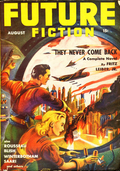 August 1941 cover of the Future Fiction magazine, volume 1, issue 6.